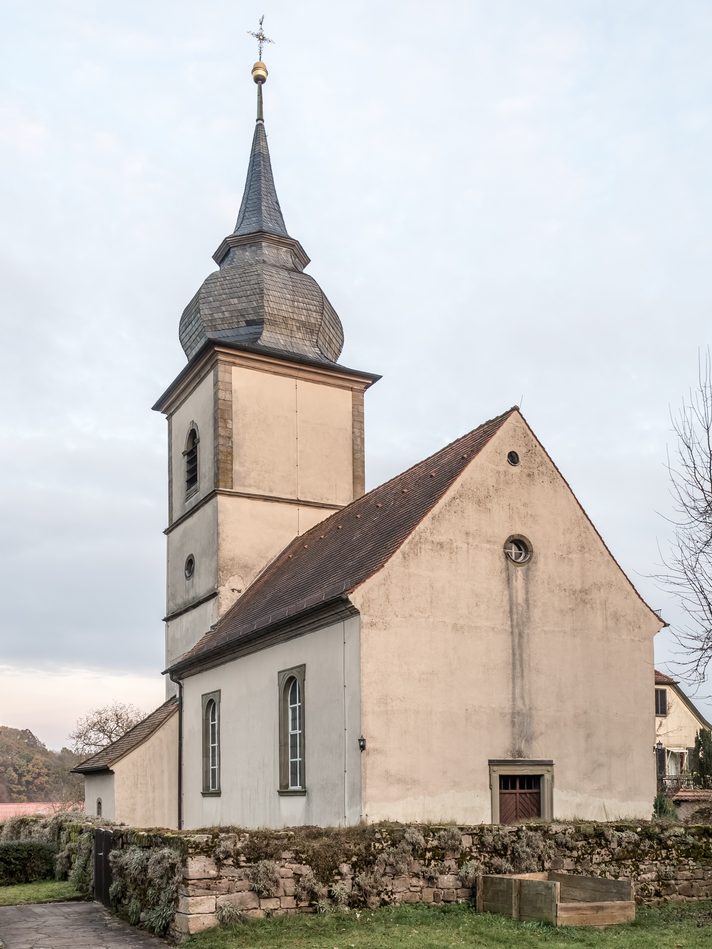 Evang.-Luth. Church of St. Vitus in Ebersbrunn near Ebrach built in 1713